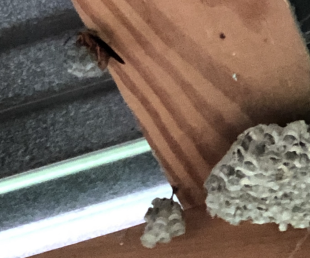 Nest of red paper wasp taken on March 31, 2020. In the image a wasp can be seen clinging to part of its nest. This image was taken in Eastern Texas.